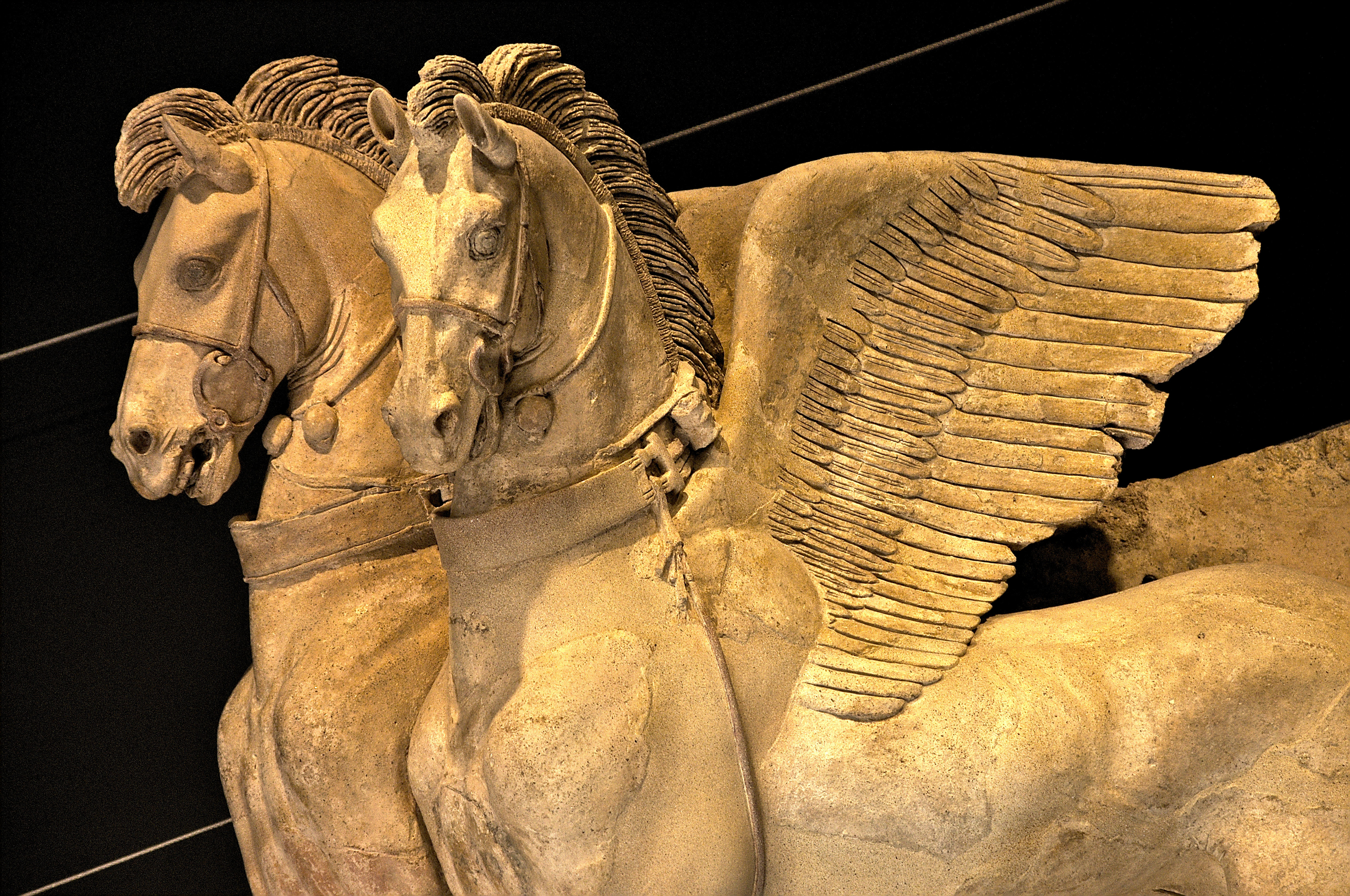 [Palazzo Vitelleschi] [Tarquinia], Viterbo VT, Italy Palazzo Vitelleschi, cavalli alati bardati, scultura etrusca ellenistica, dettaglio teste ed ali, Tarquinia.jpg photo Paolo Villa VR 2016 [Archeological] [etruscan] [horses] copyright: For see what there is it near and possible details and views copy and paste "File:Photo Paolo Villa VR 2016 (VT)" at search